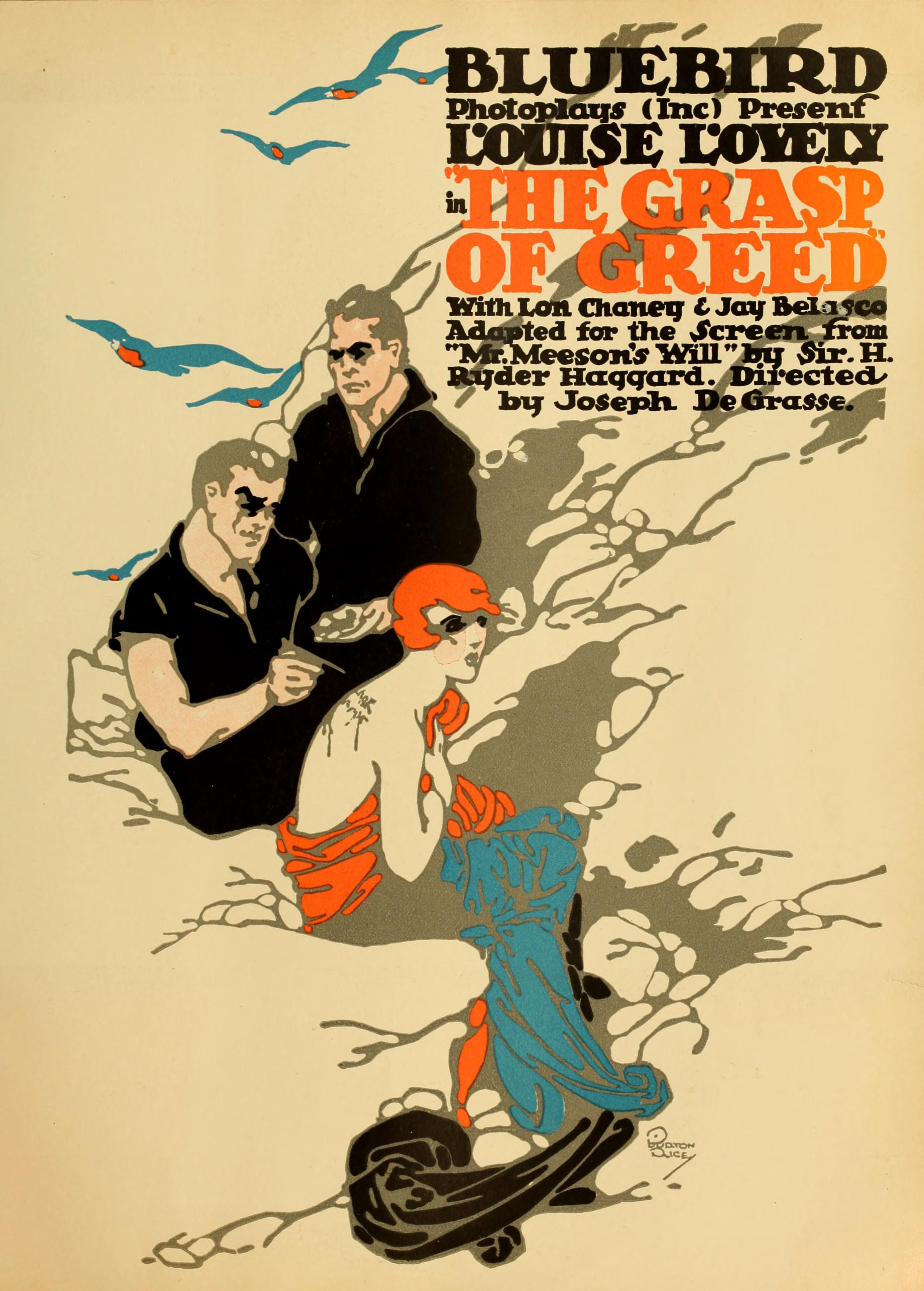 Advertisement in The Moving Picture World for the American film The Grasp of Greed (1916).